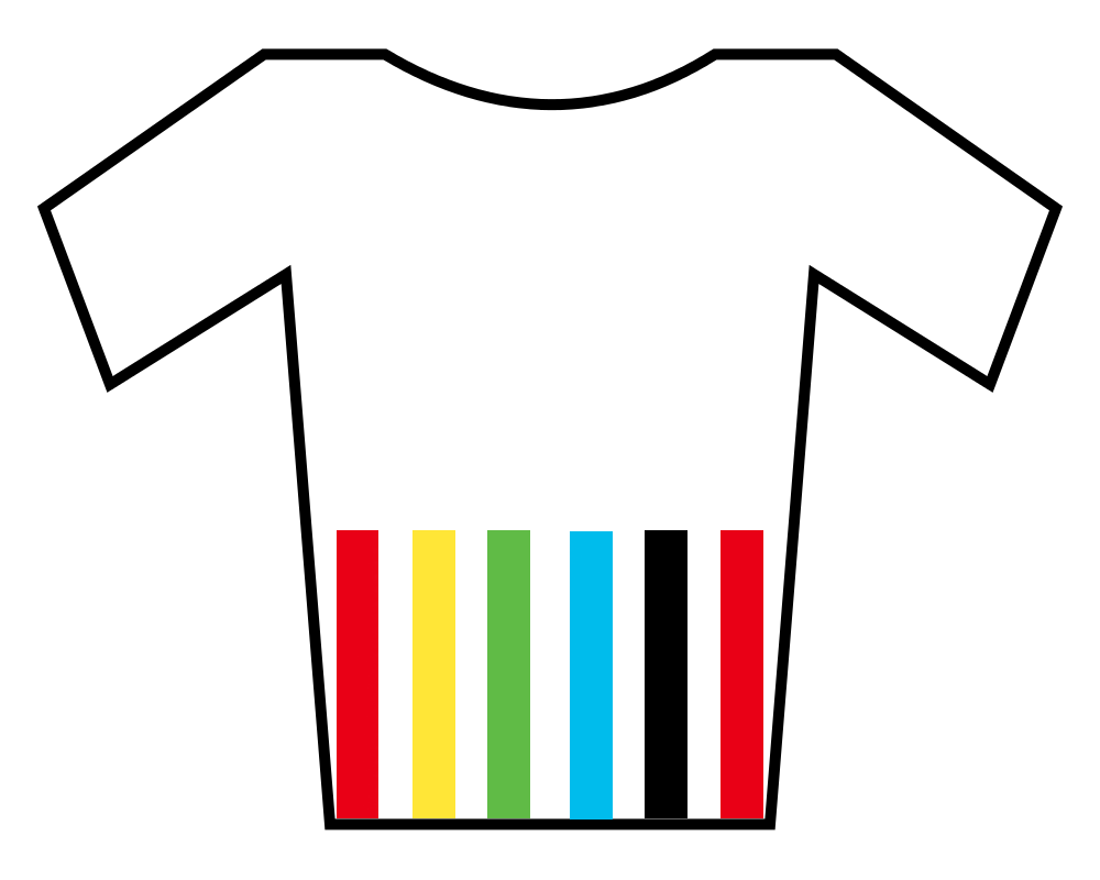 Jersey to denote the winner of a particular cycling event in the Pan American games